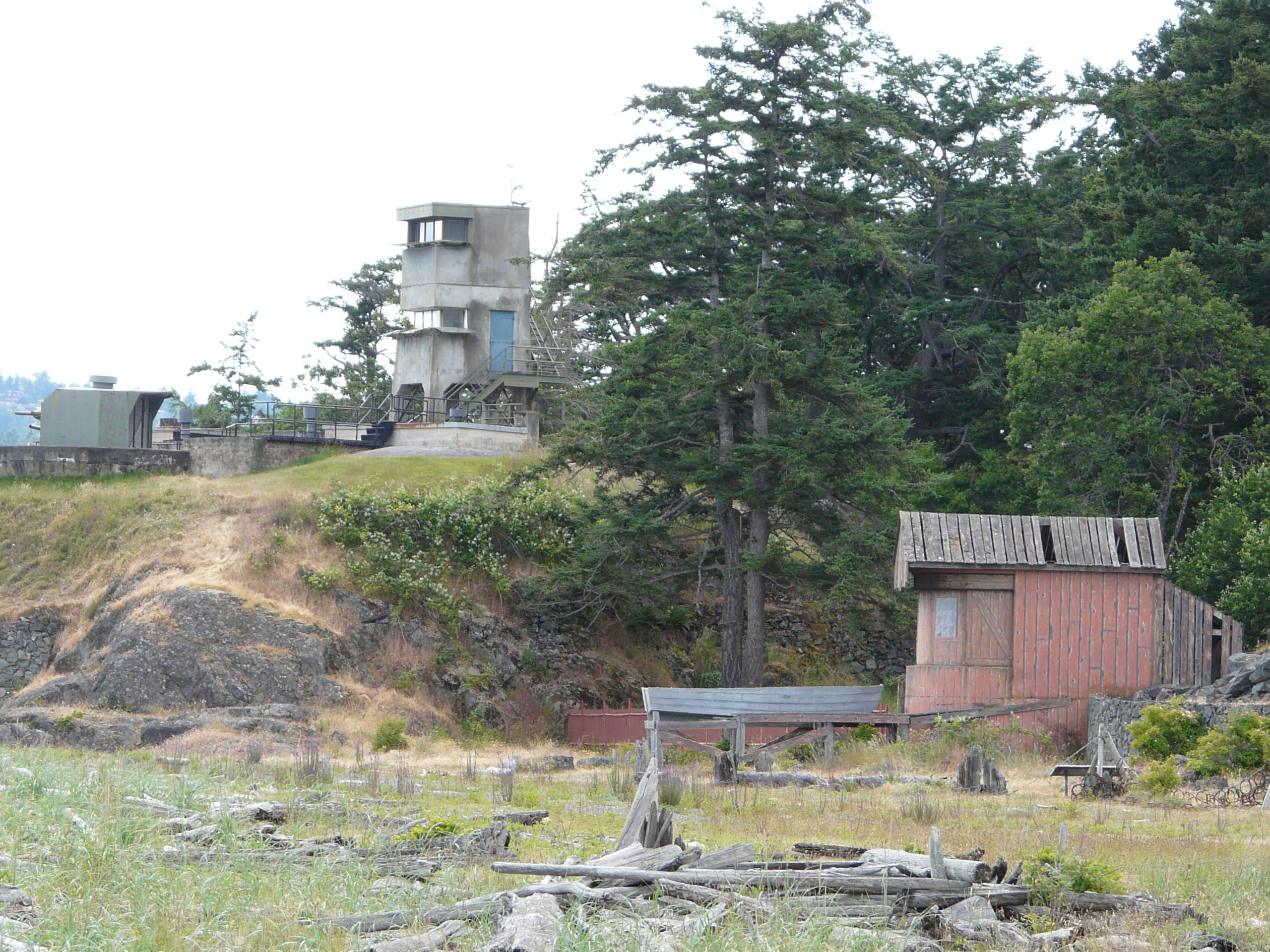 Gun Emplacement, Magazine and Directors Tower, Belmont Battery Classified Federal Heritage Building